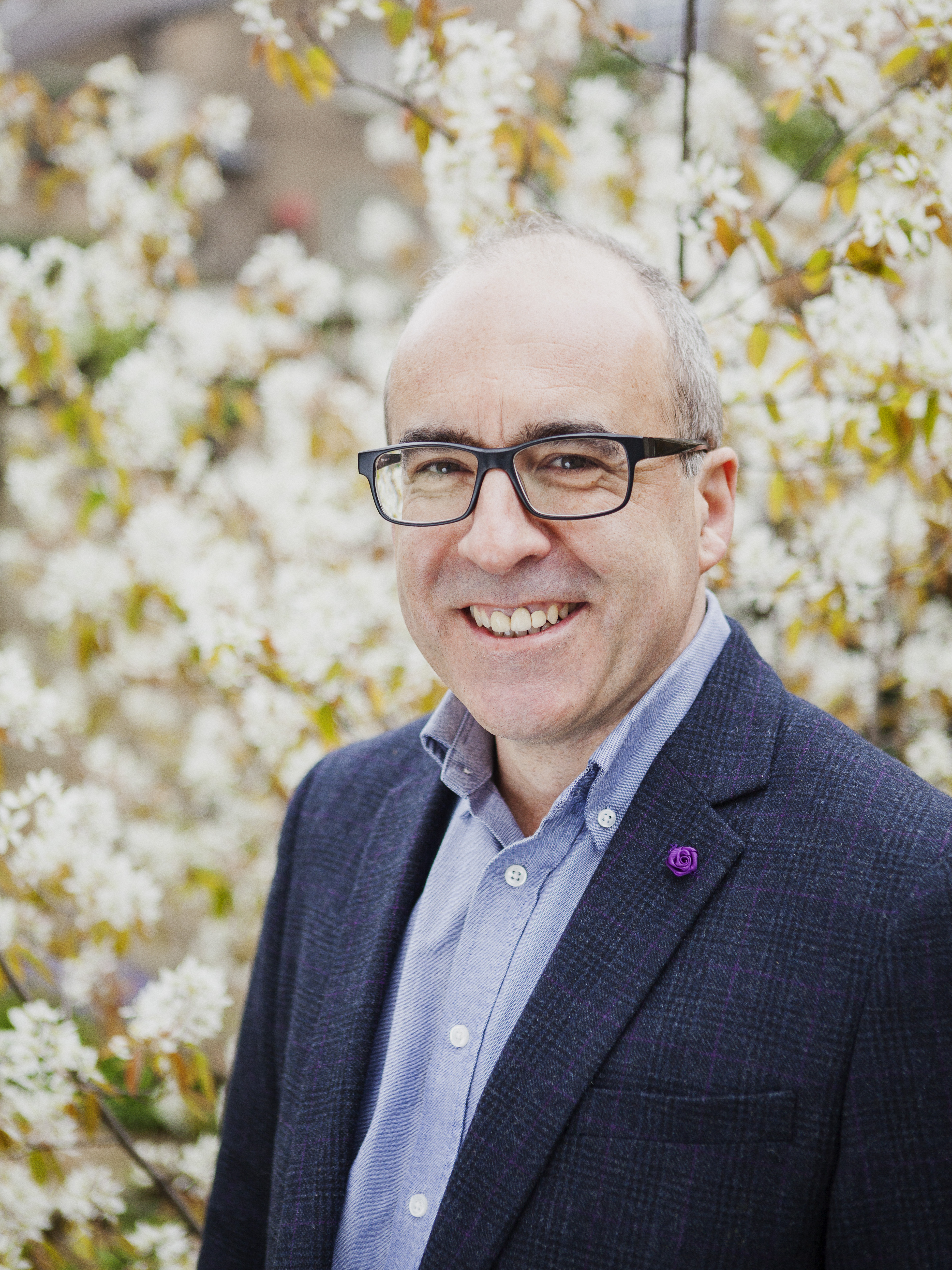 Stephen (Steve) Jackson, hoogleraar biologie, University of Cambridge, Cambridge (Verenigd Koninkrijk), krijgt de Dr. A.H. Heinekenprijs voor de Geneeskunde 2016 voor zijn fundamentele onderzoek naar DNA-herstel in menselijke cellen en voor de succesvolle toepassing van kennis over dat proces in de ontwikkeling van nieuwe medicijnen tegen kanker. Bij gebruik van de foto's is naamsvermelding van de fotograaf verplicht: Jussi Puikkonen/KNAW. = Stephen (Steve) Jackson, Professor of Biology at the University of Cambridge (UK), will receive the 2016 Dr A.H. Heineken Prize for Medicine for his fundamental research into DNA repair in human cells and for the successful application of knowledge of that process in the development of new cancer drugs. Re-use of these photographs must be accompanied by proper attribution: Jussi Puikkonen/KNAW